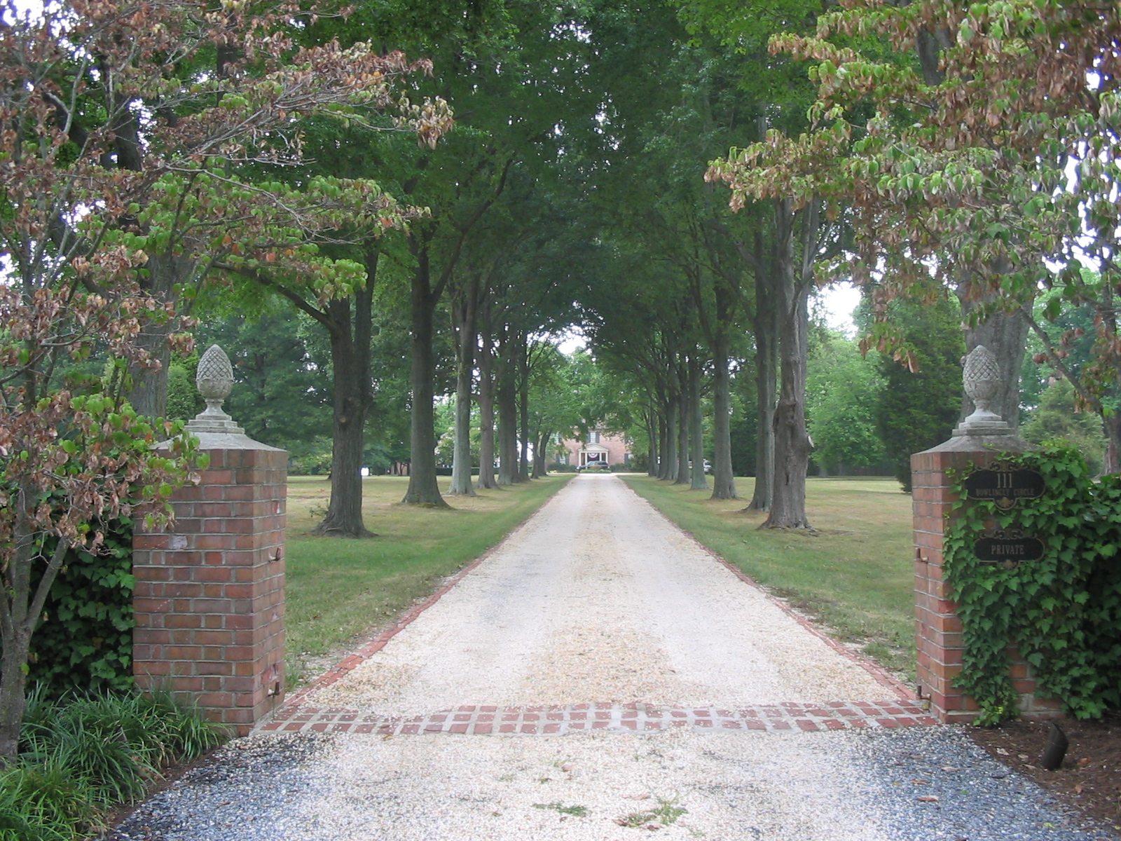 Image taken by me for Wikipedia